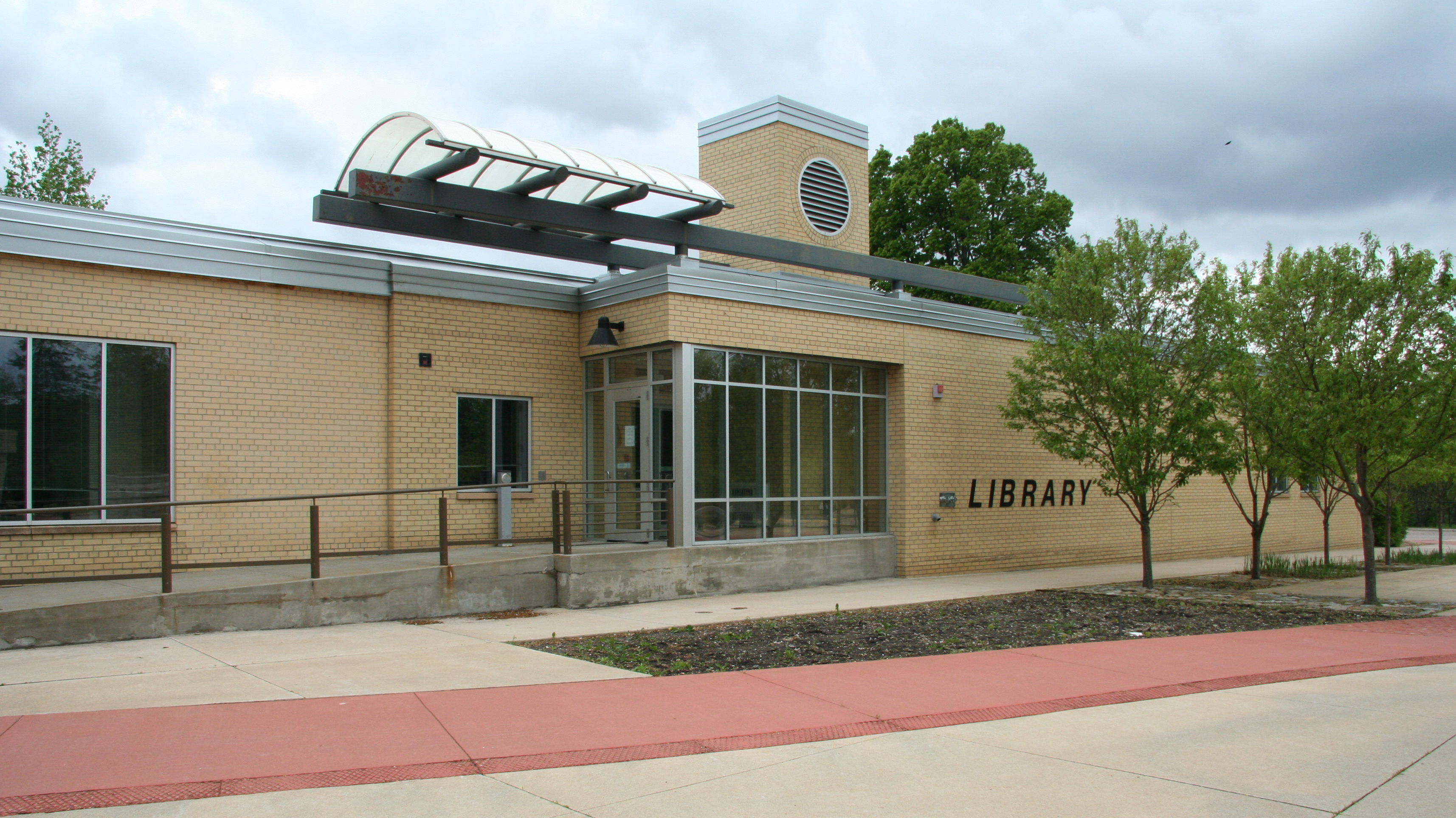 The Minnesota Library for the Blind and Physically Handicapped on the campus of the Minnesota State Academy for the Blind in in Faribault, Minnesota